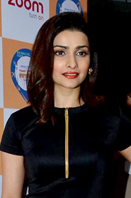 Prachi Desai at the launch of Thank God It's Fryday 3.0